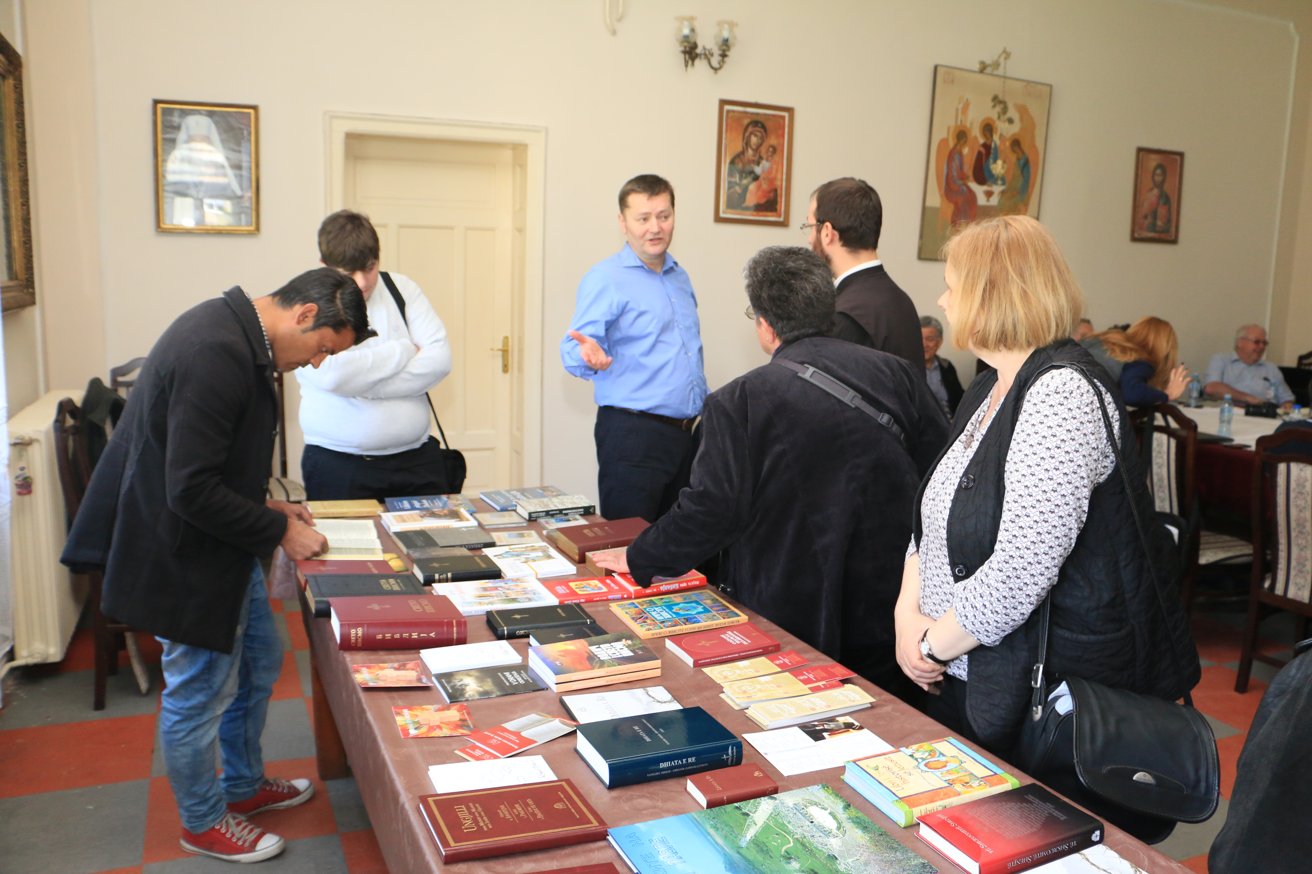 Serbian bible society in Leskovac, 2017